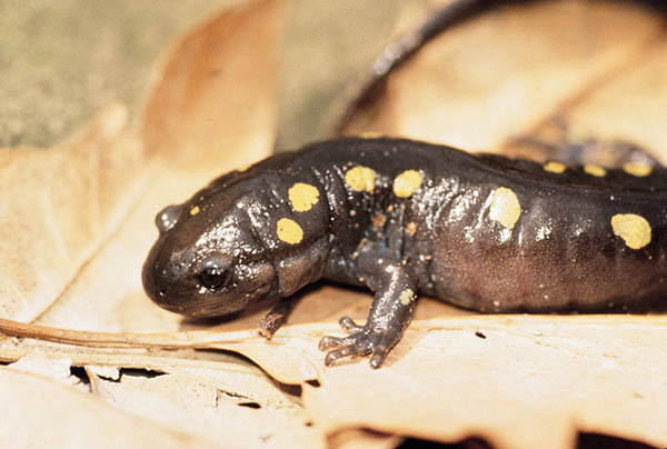 Spotted salamander (Ambystoma maculatum)